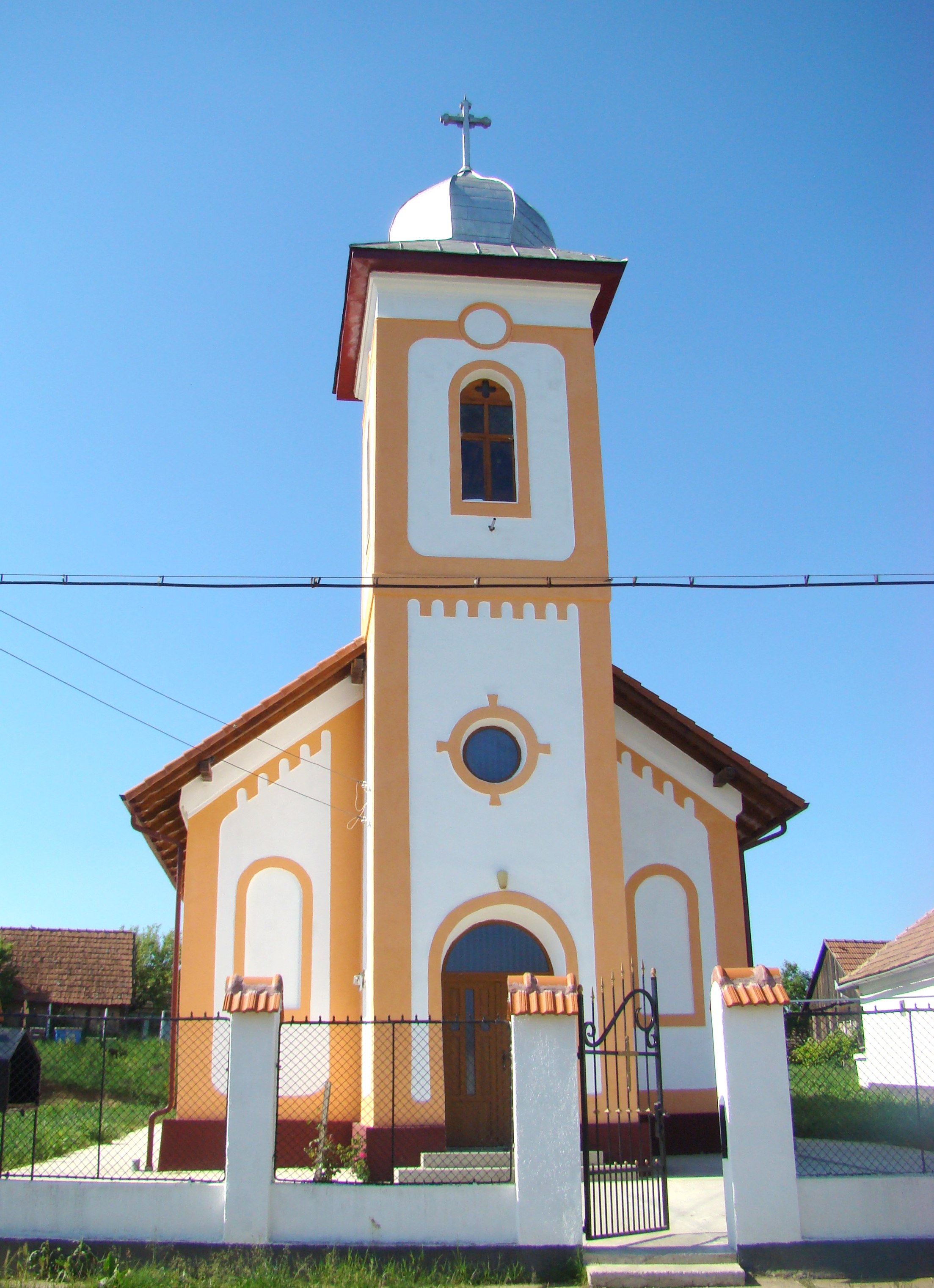 Orthodox church in Sânmiclăuș, Alba county, Romania